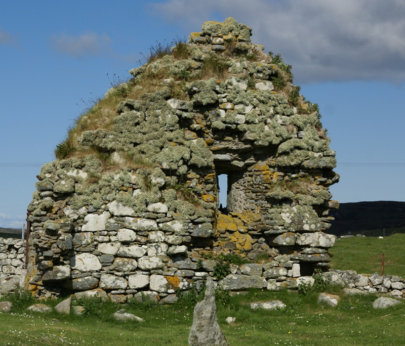 Howmore churches and chapels, Howmore (Tobha Mòr), South Uist, Outer Hebrides, Scotland - St Dermot's Chapel (Caibeal Dhiarmaid)